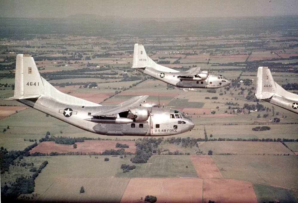 Fairchild C-123B-7-FA Provider 54-641 Fairchild C-123B-7-FA Provider 54-636 Fairchild C-123B-8-FA Provider 54-651 641 (c/n 20090) later supplied to CIA for operations from Taiwan over Chinese mainland. Crashed Jun 27, 1965 or Aug 31, 1965 636 (c/n 20085) converted to C-123K. Sold to Air America as 636 Nov 1968. To Laotian AF (?) Jul 1973 651 (c/n 20100) converted to C-123K. Shot down by ground fire over SVN Nov 29, 1965 while with 309ACS/315ACG